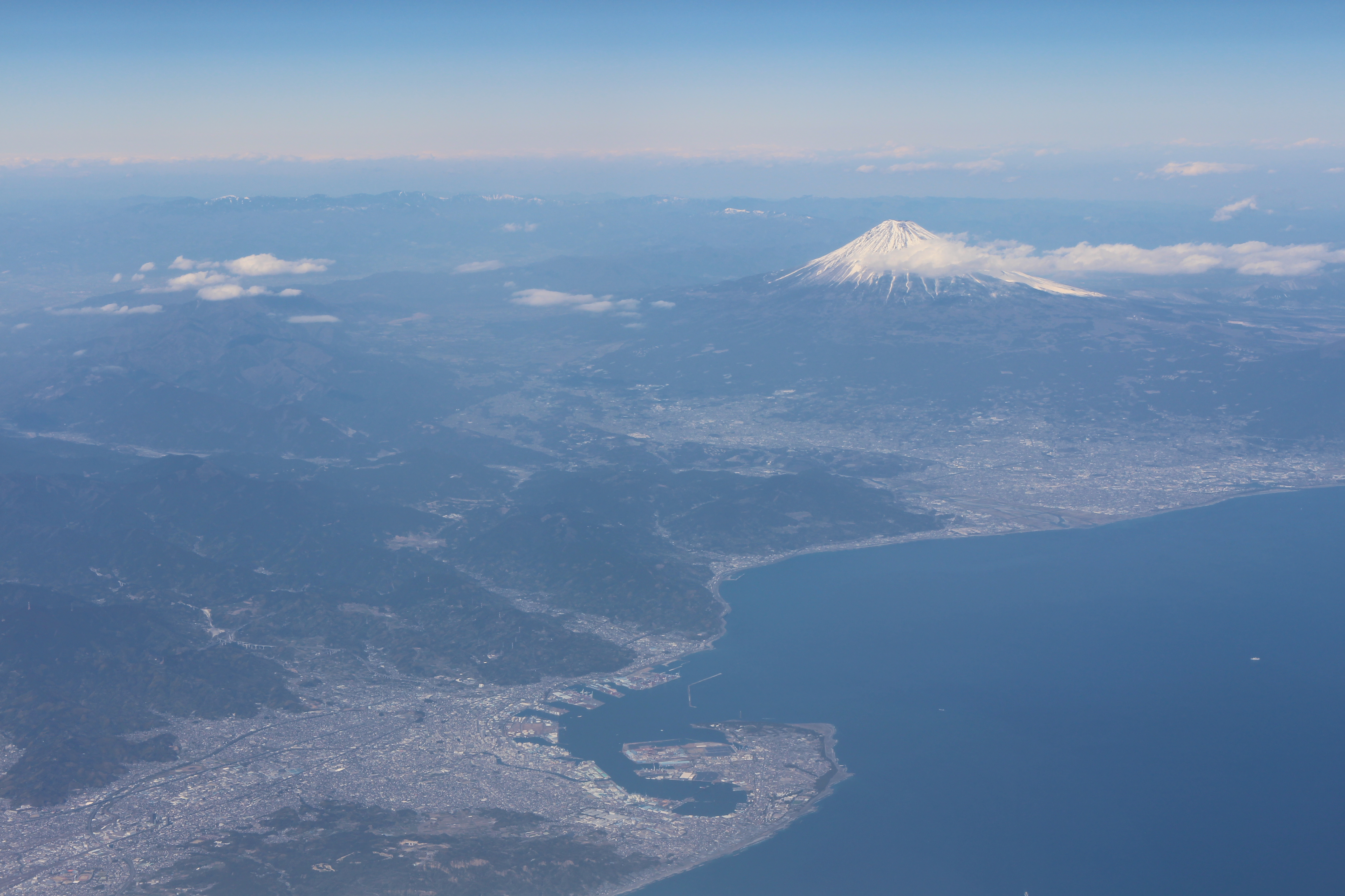 Aerial view of Mount Fuji